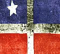 Image of the original Flag of Lares at UPR.